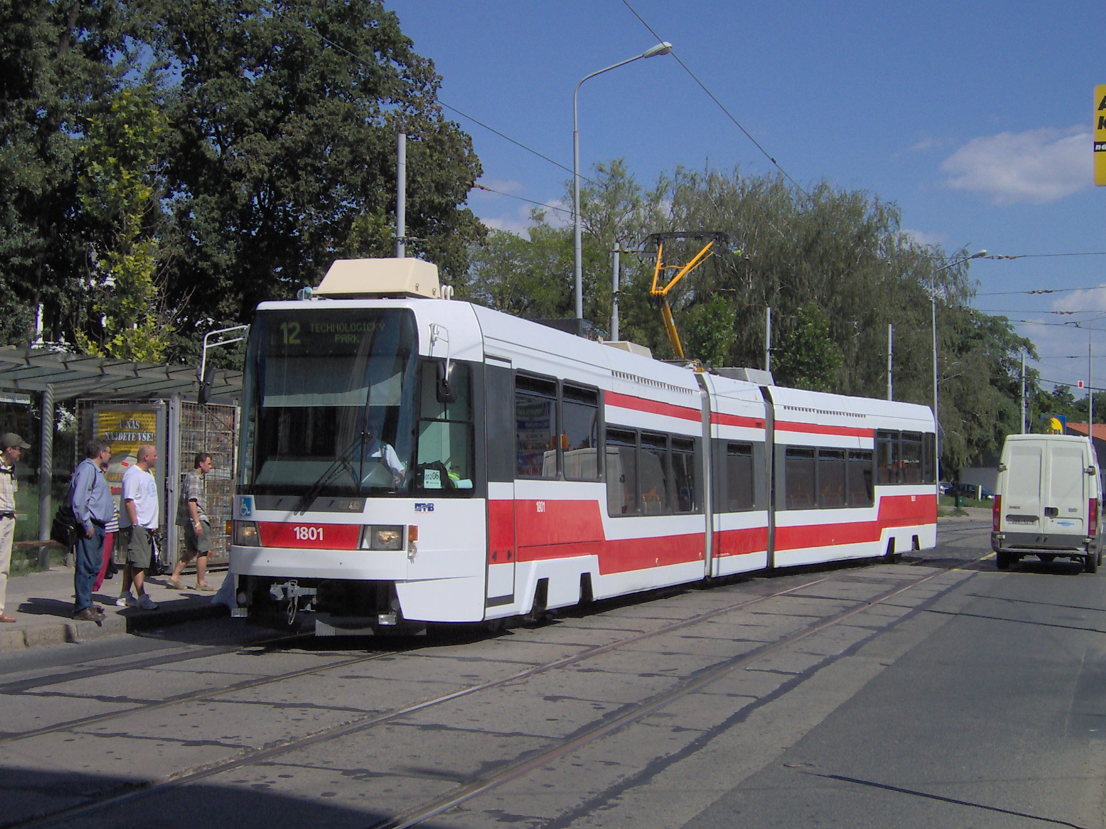 Tatra RT6N1 tram in Brno